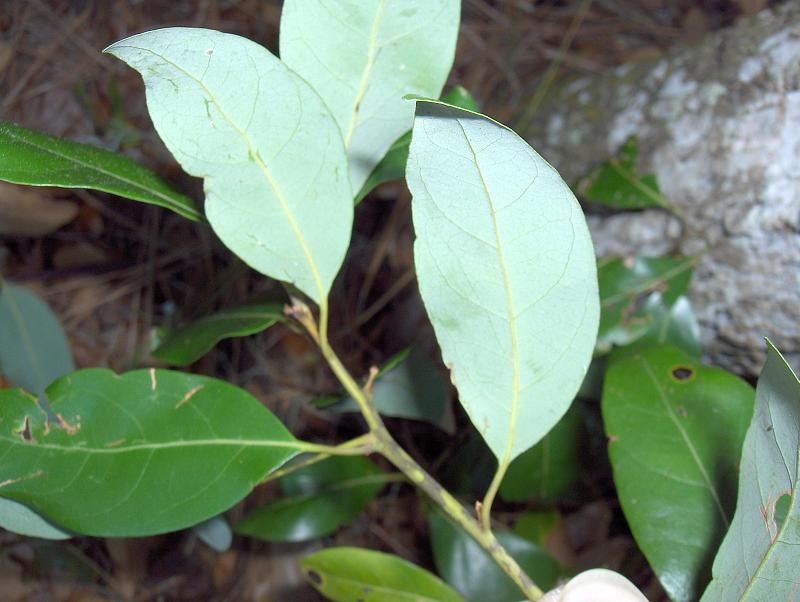 Red Bay